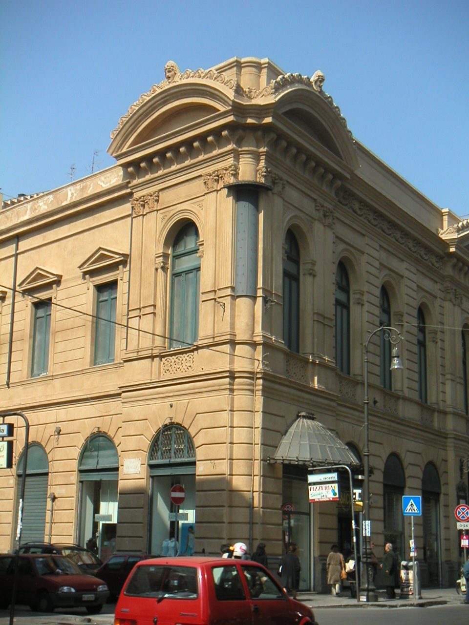 Teatro Biondo Theatre (Palermo, Italy)